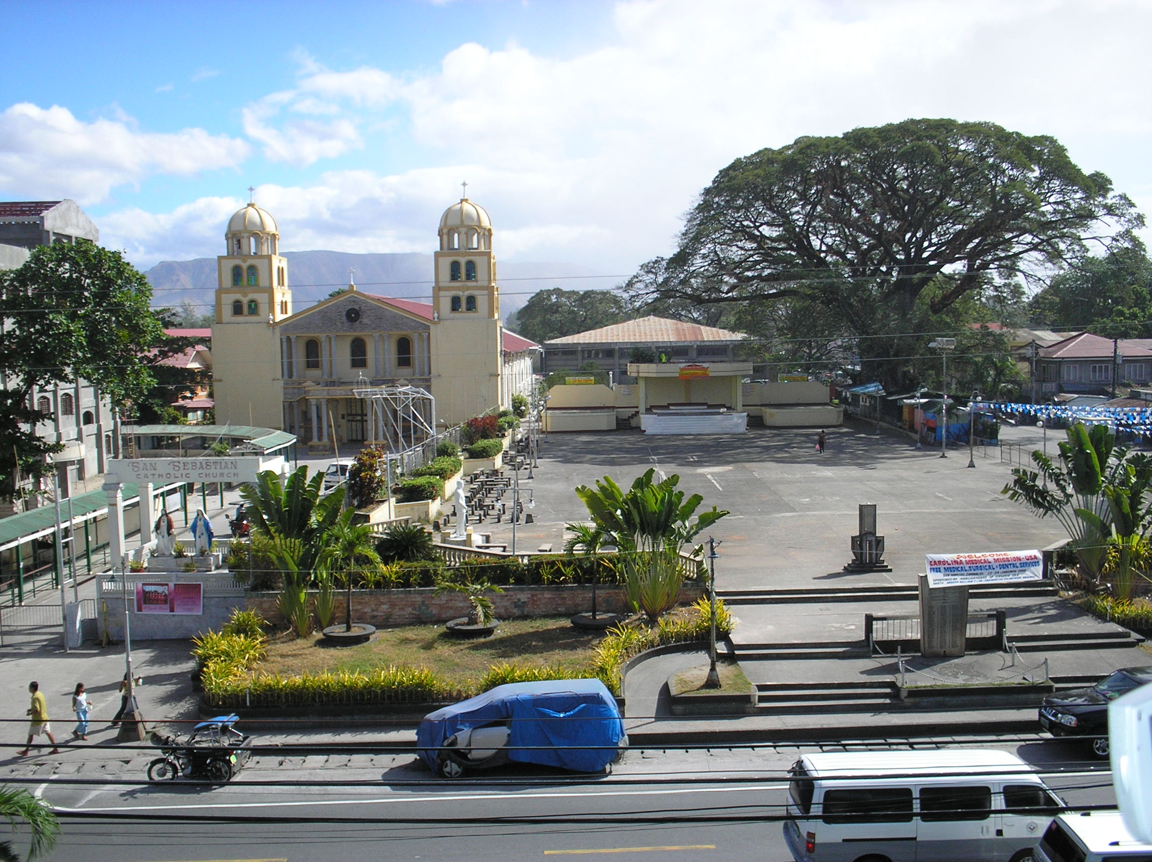 View from Mayor's Office, San Narciso